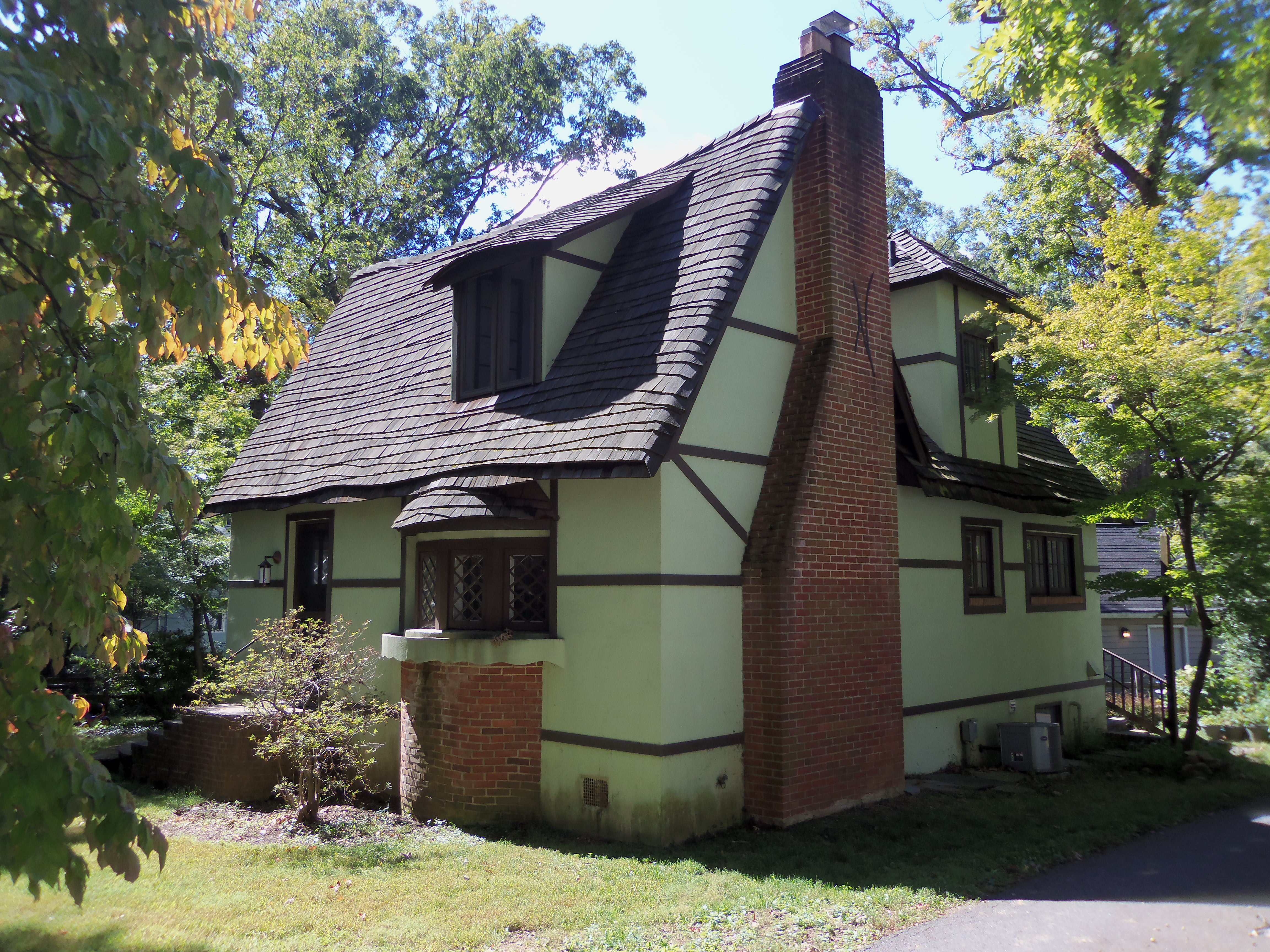 Washington Grove Historic District